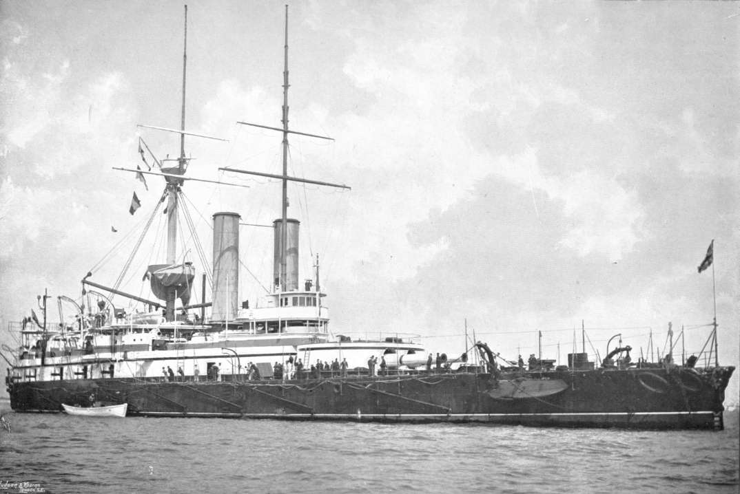 British battleship HMS Sans Pareil of 1887.